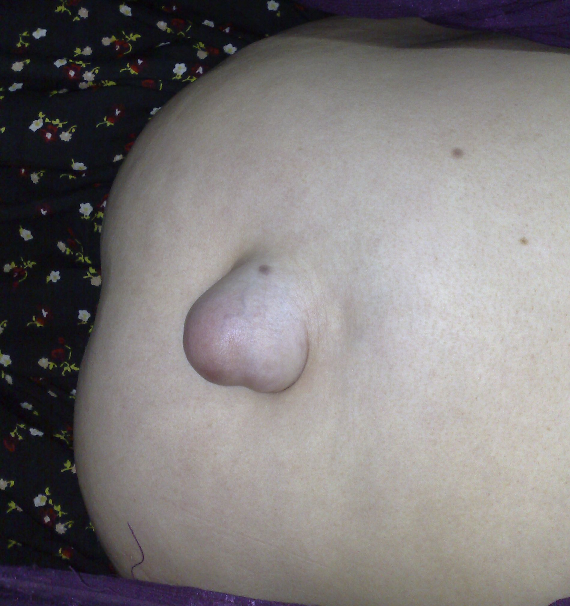 Umbilical hernia in Iran.